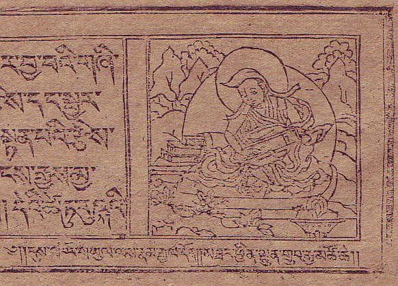 The Tibetan Astronomer Phugpa Lhündrub Gyatsho according to a Tibetan blockprint of the work Padma dkar-po´i zhal lung (1447)